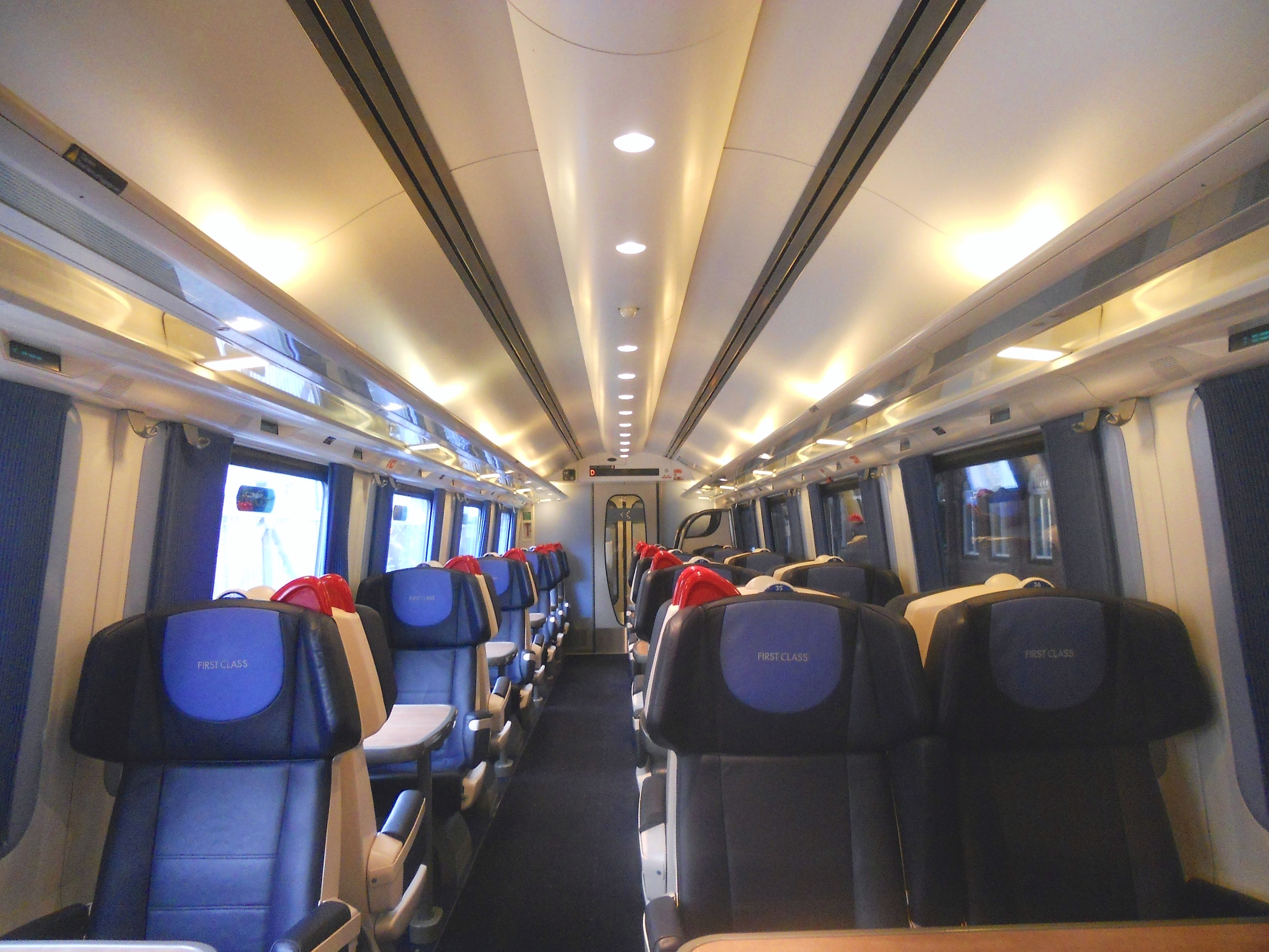 The interior of First Class aboard an East Midlands Trains refurbished Class 222